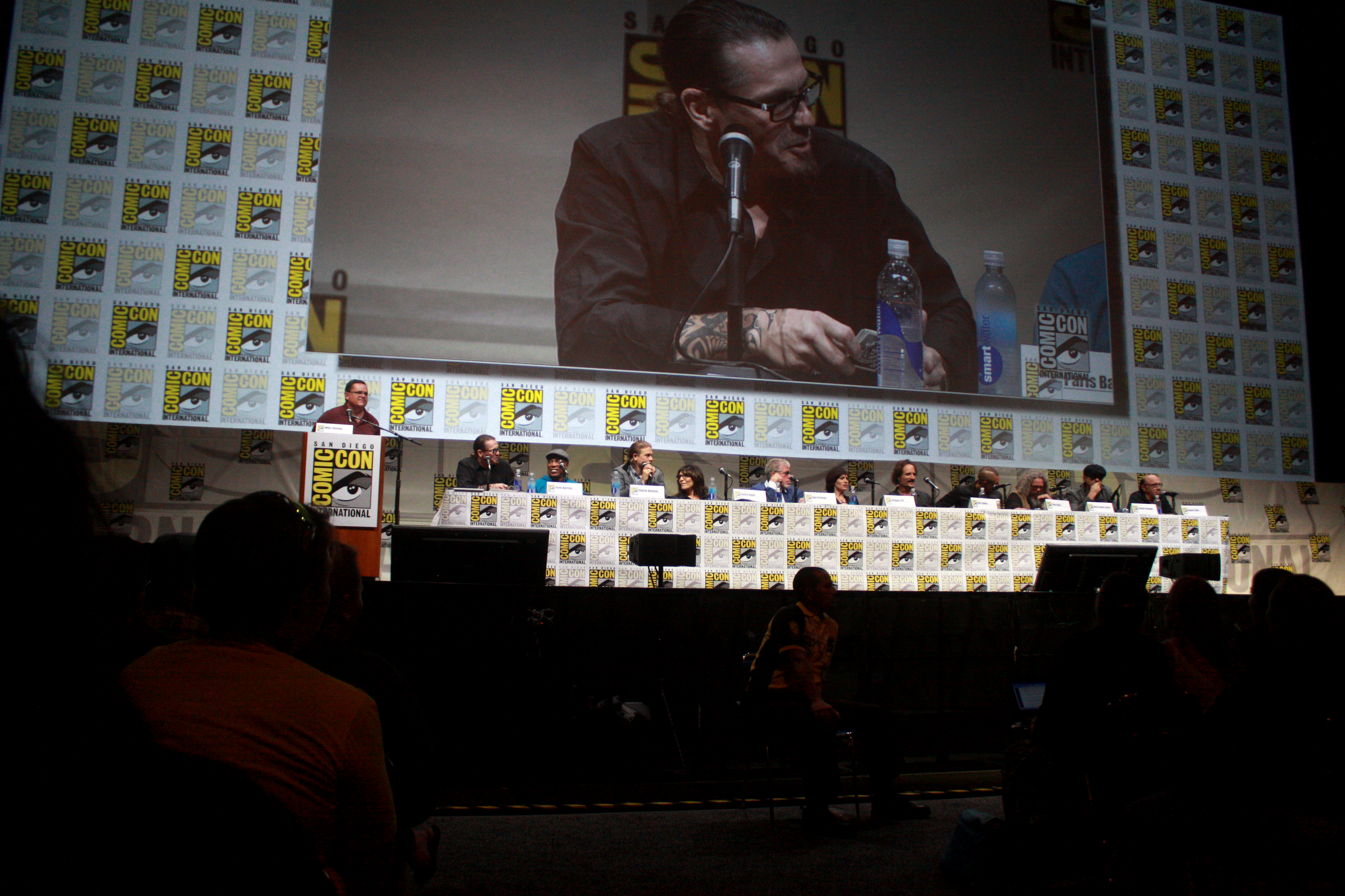 The cast of Sons of Anarchy speaking at the 2013 San Diego Comic Con International at the San Diego Convention Center in San Diego, California.